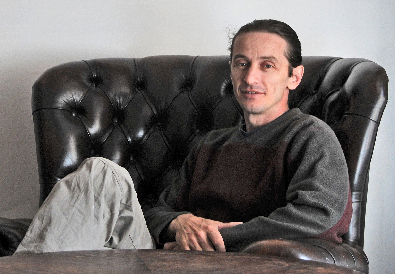 Florian Balaban, Romanian caricaturist and sportsman living in Luxembourg